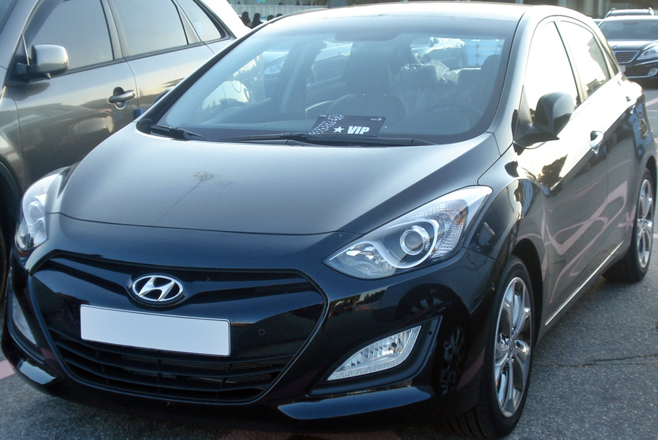 Hyundai i30